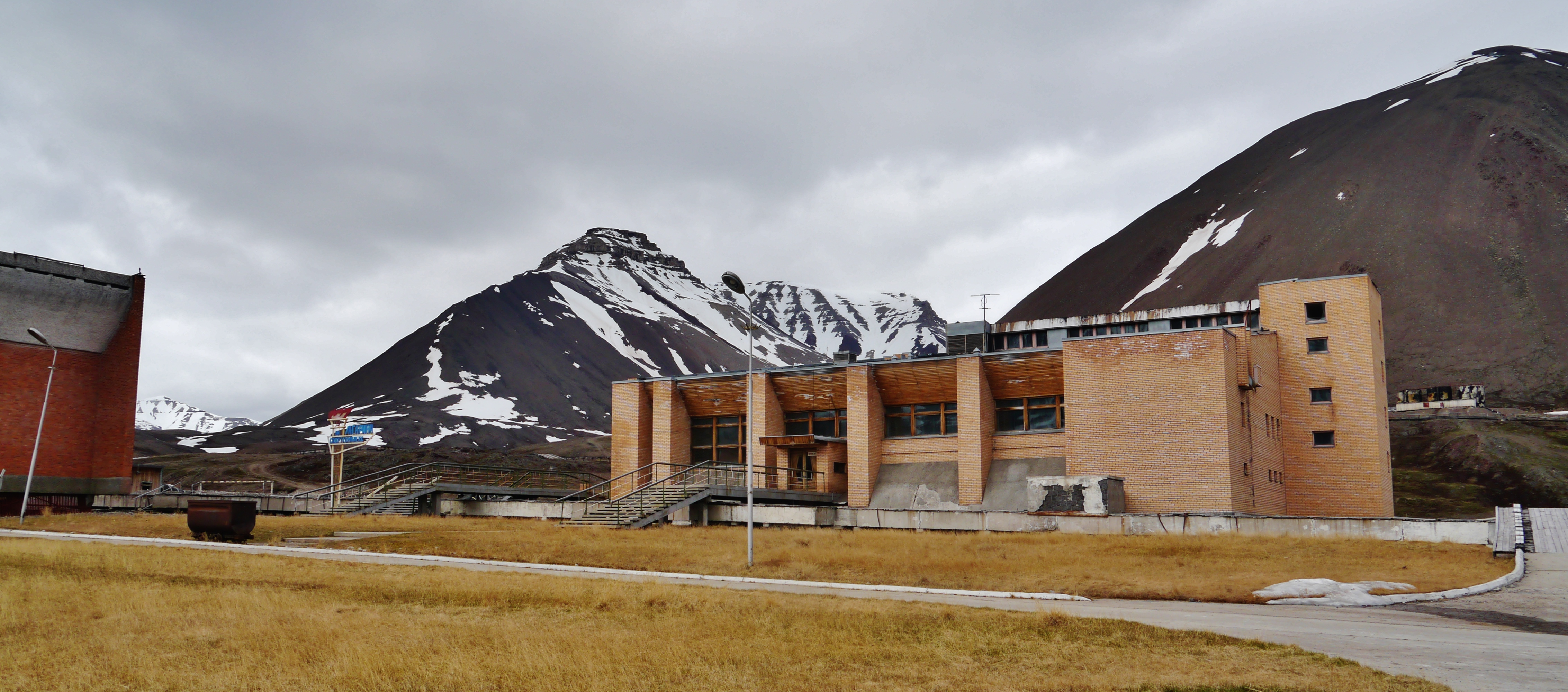 Pyramiden, Spitsbergen, Norway